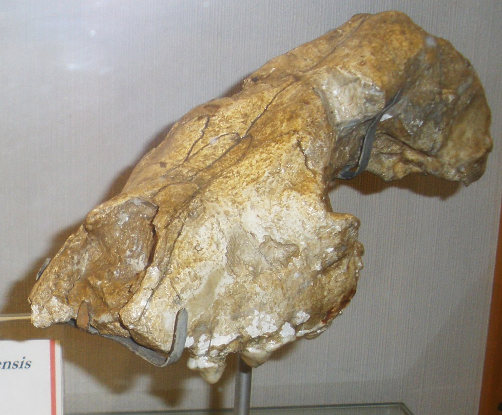 Cropped image of taxon in file name